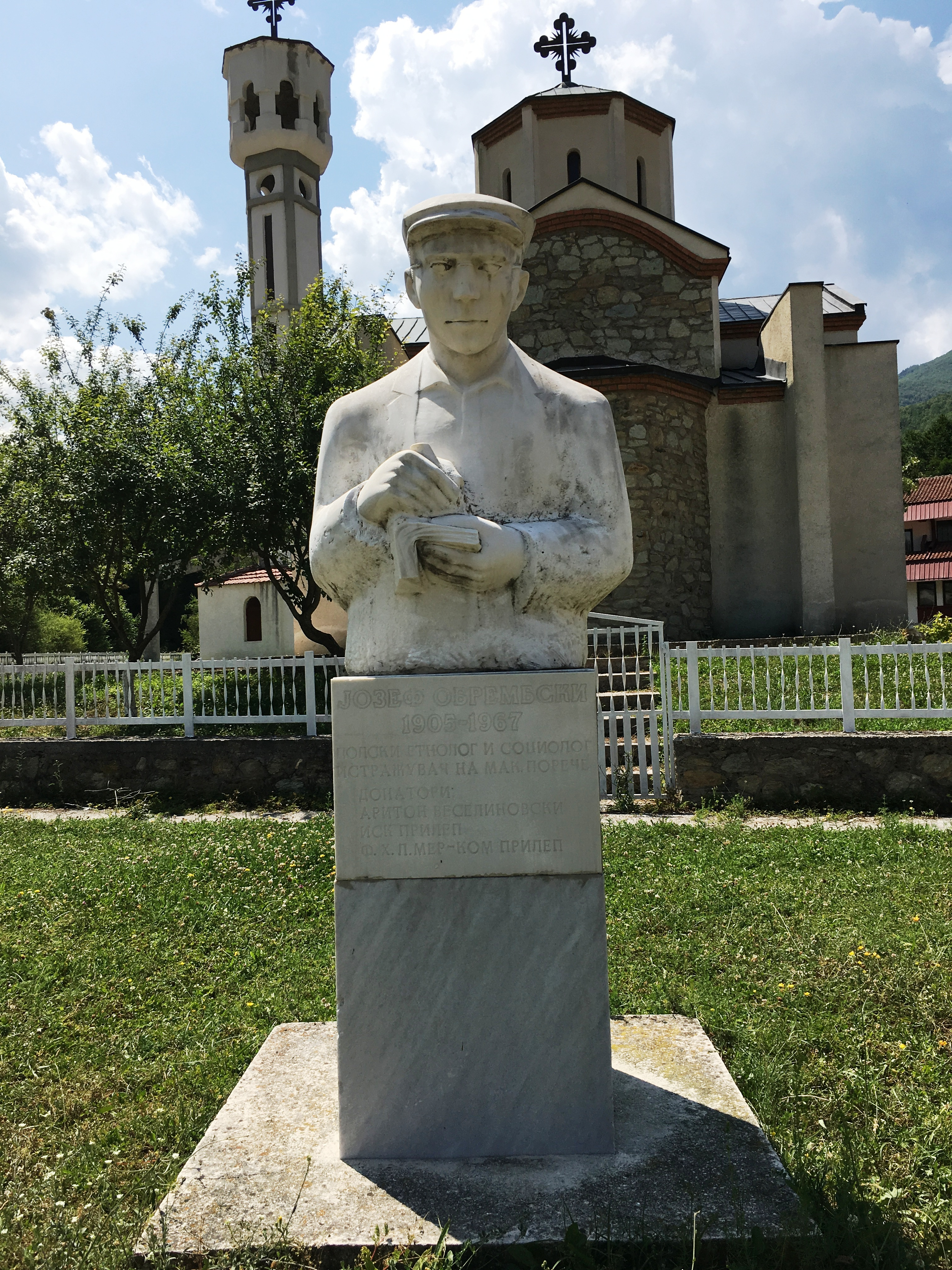 Bust of Józef Obrębski in the village of Samokov